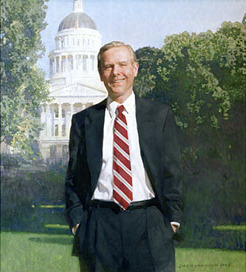 Official portrait of Pete Wilson as Governor of California